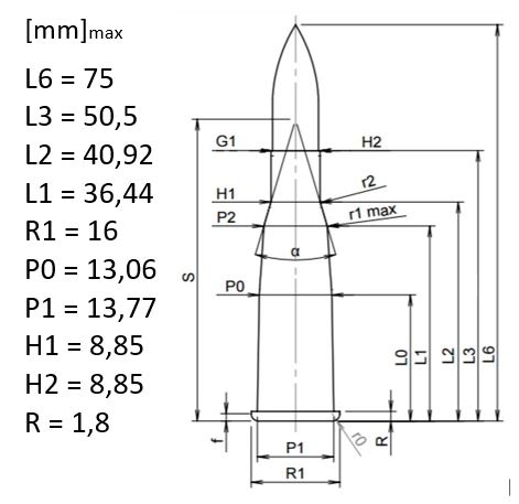 Cartridge 8x51 R Lebel basic dimensions